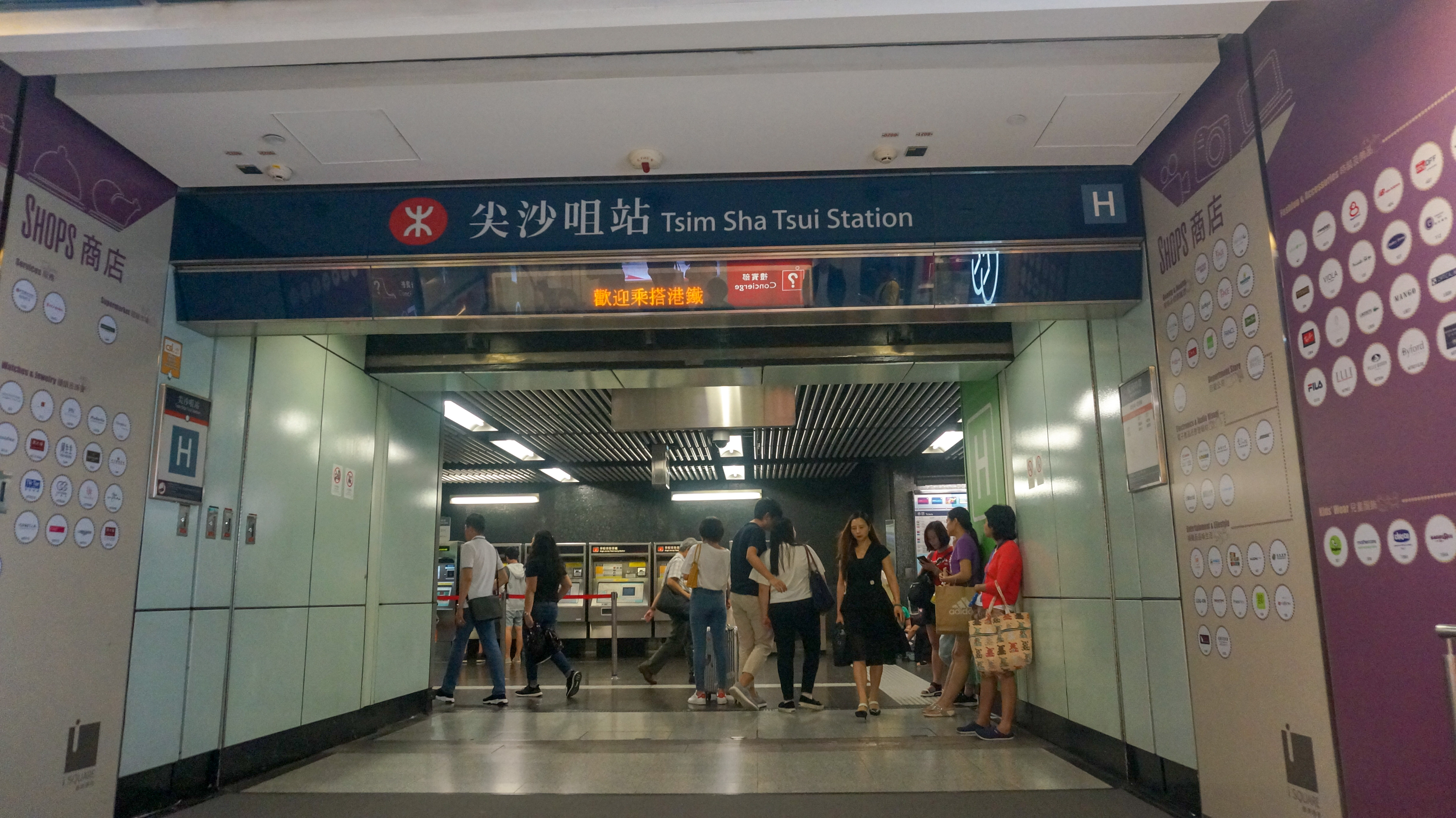 Tsim Sha Tsui Station Exit H